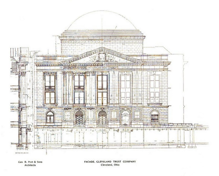 Orthographical depiction of the East 9th Street facade of the Cleveland Trust Company Building in Cleveland, Ohio, in the United States. This drawing was made by George B. Post & Sons in 1906.